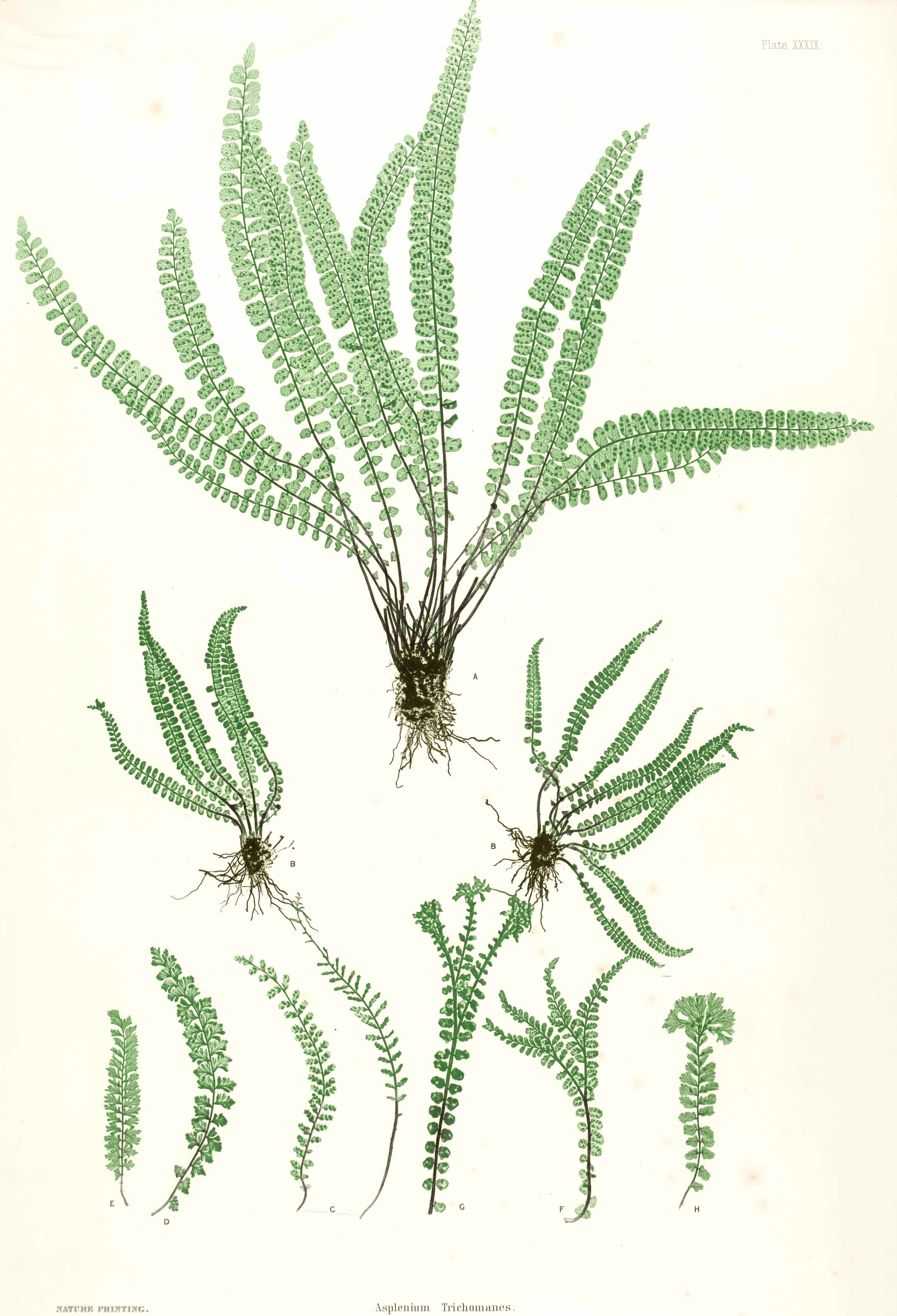 Plate from book